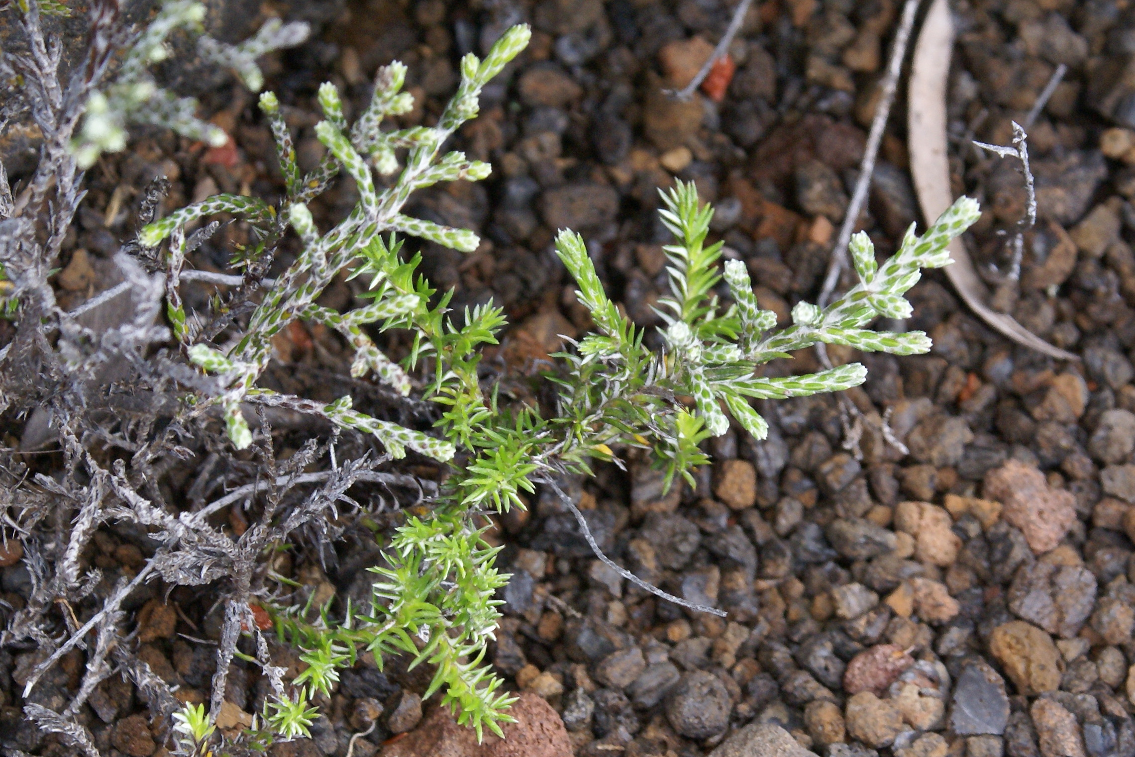 Heterophylly of Stoebe passerinoides